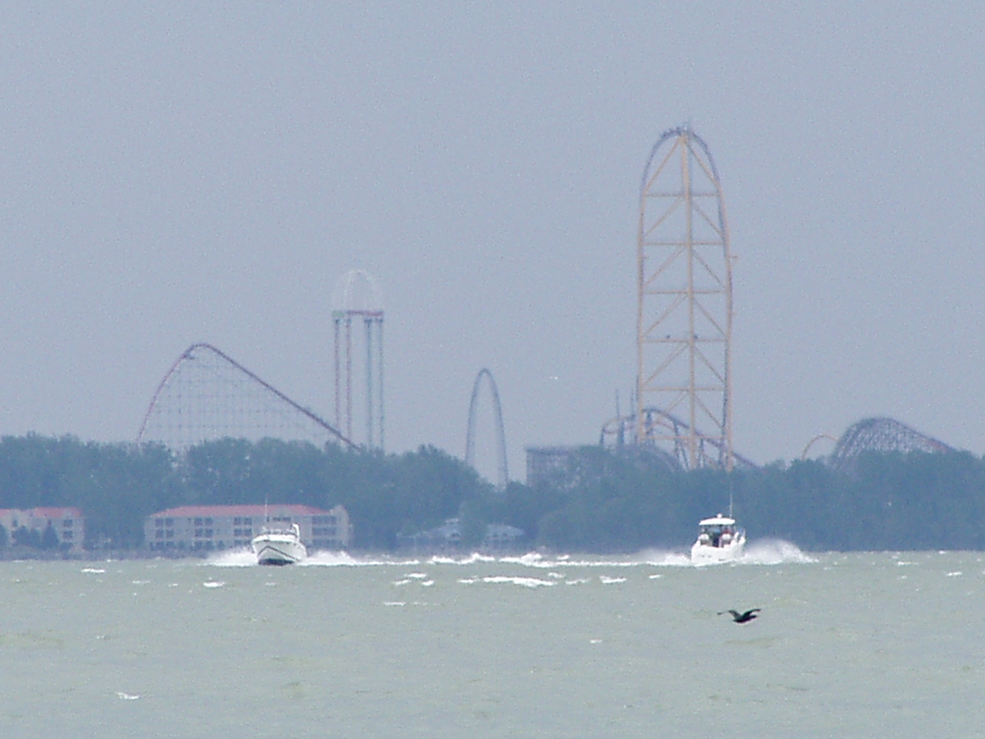 Cedar Point Amusement Park from Lake Erie